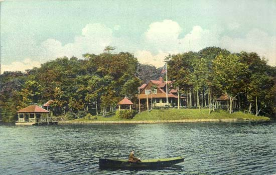 Ross Fenton Farm, Asbury Park, New Jersey - Charlie J.Ross and Mabel Fenton, proprietors